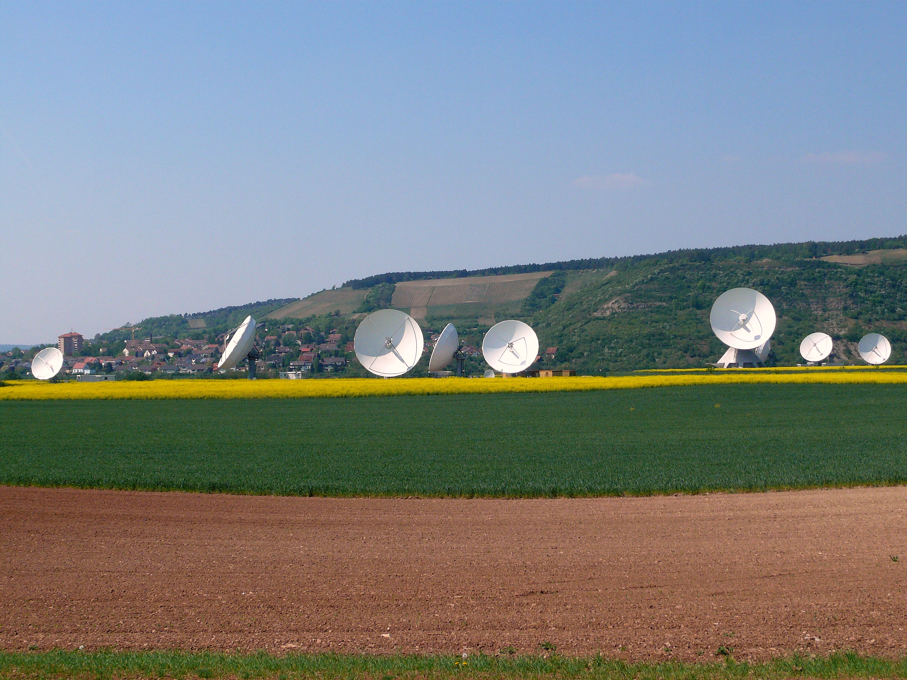 Satellite ground station Fuchsstadt, Germany, aerialfield two and four